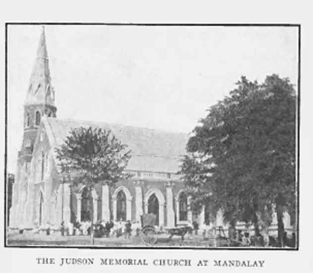 From: Judson the pioneer; Hull, J. M. (John Mervin);Philadelphia : American Baptist Publication Society; 1913